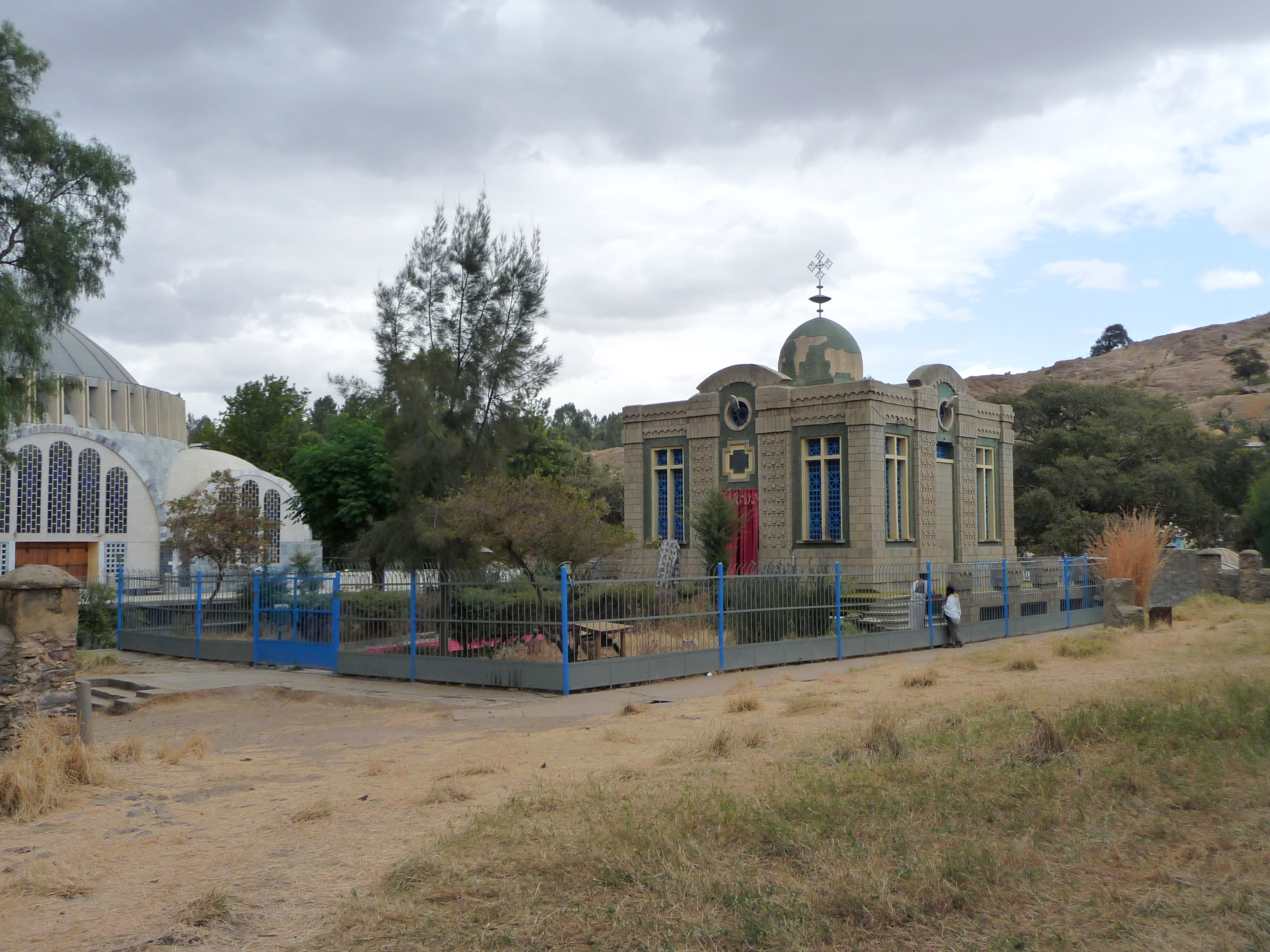 A chapel in Aksum, which is allegedly housing the Ark of the Covenant (Tigray Region, Ethiopia).